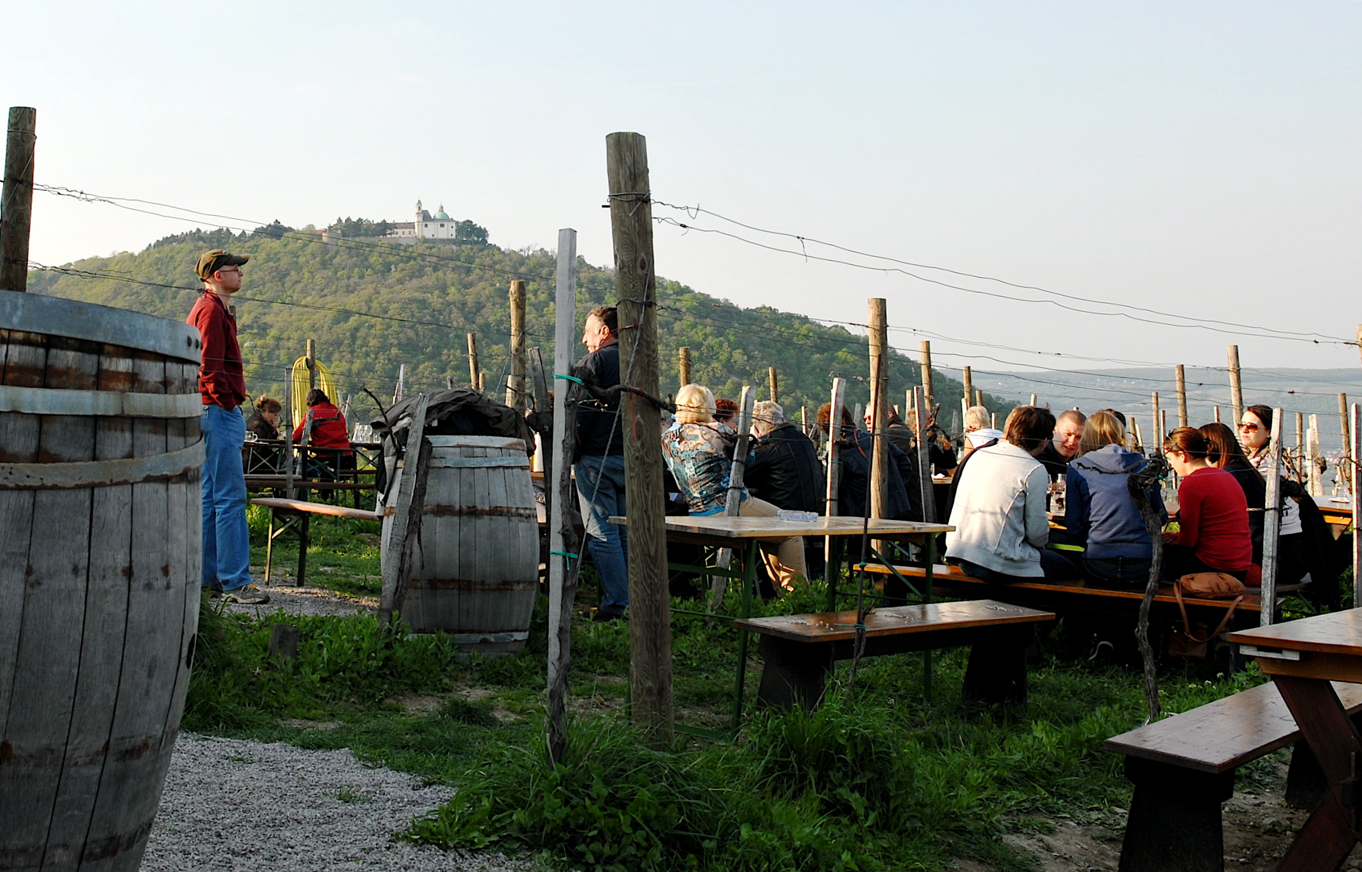 Nussberg, Buschenschank in a vineyard, 2011